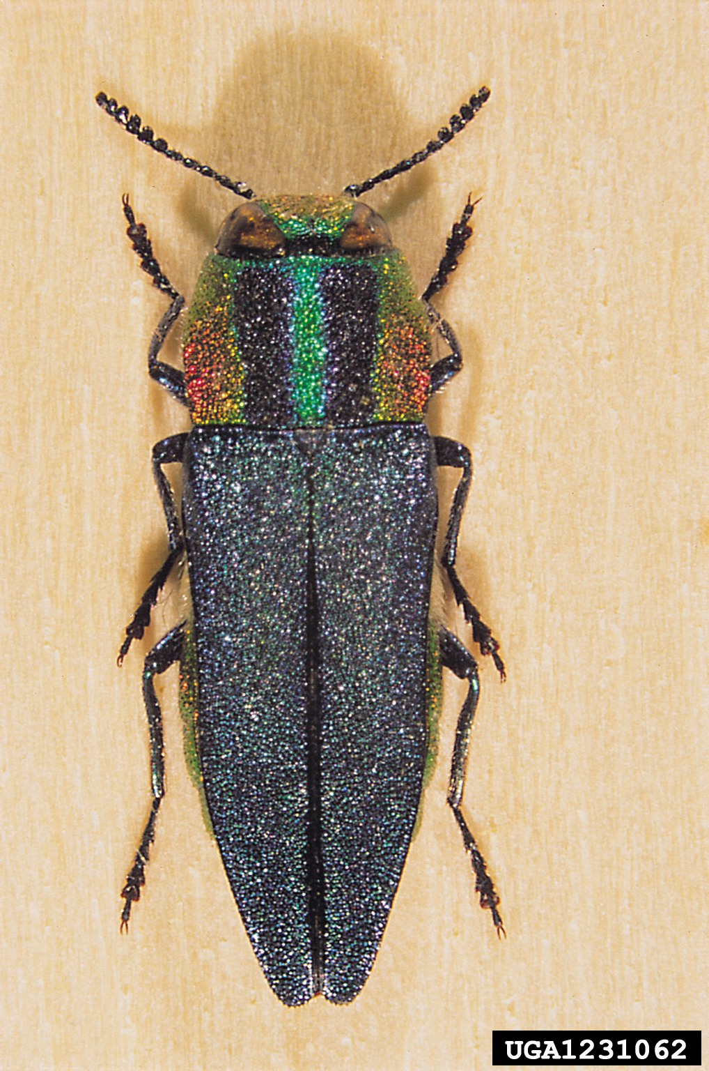 Anthaxia hungarica